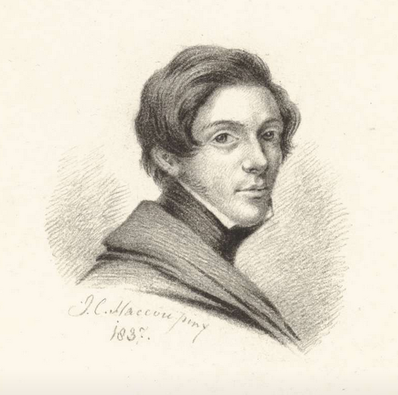 Johannes Cornelis Haccou, Selbstporträt